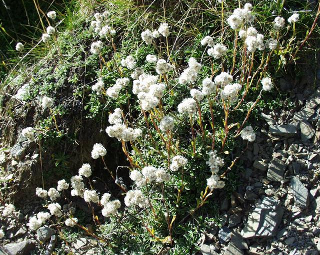 (en) Antennaria dioica, a photography originating of the internet site The accord of the autor, H. Brisse, is here. (fr) Antennaria dioica, une photographie issue du site internet L'accord de l'auteur, H. Brisse, se situe ici.